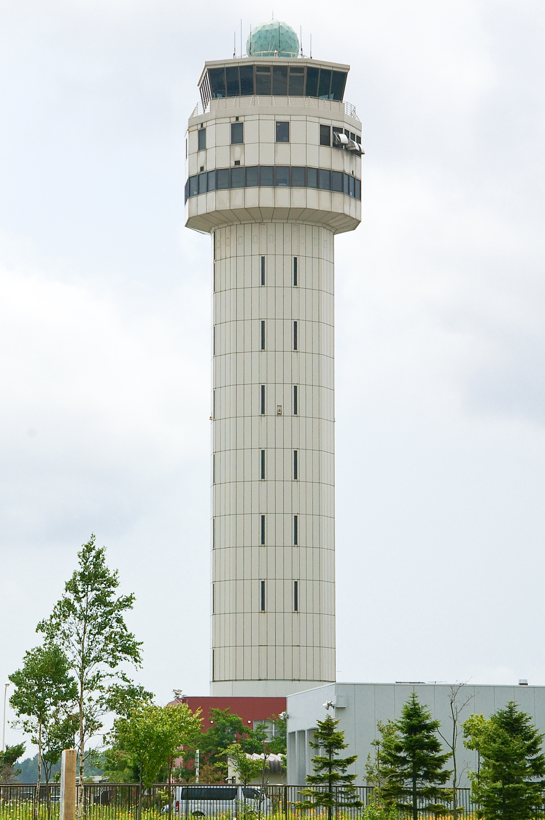 Photograph of the Control tower of JASDF Chitose Air Base, which handles aircraft traffic of New Chitose Airport and Chitose Air Base, in Chitose, Hokkaido, Japan.